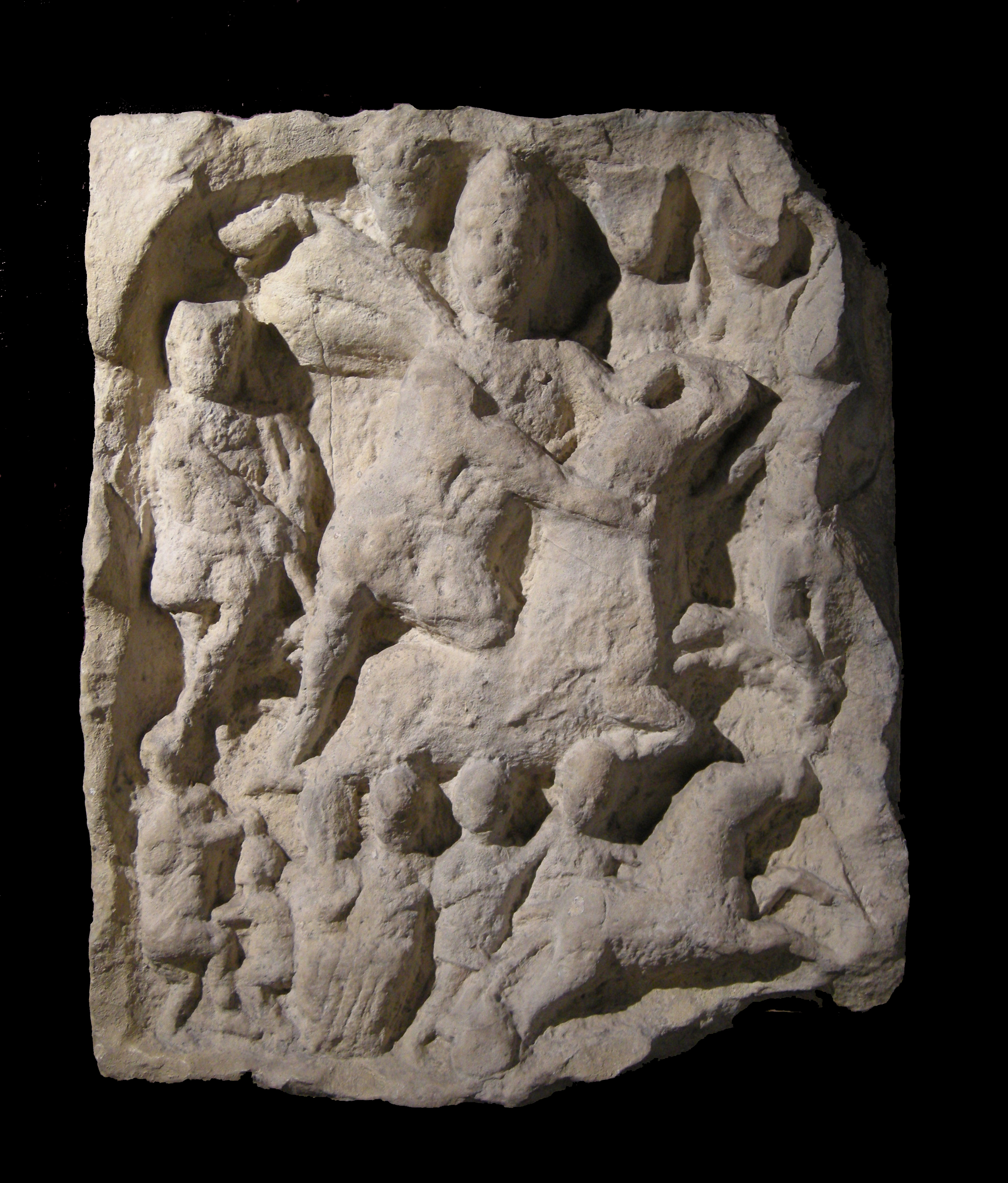 Plaque with Mithraic scene. Described in Eboracum as "Mithraic relief, plaque, of limestone, 2ft 3ins by 1ft 10 ins with closely packed figures in an arched recess, badly worn. The principal figure is Mithras, in Phrygian dress, his left knee bent and resting on the bull's back whilst he stabs it in the neck. A dog jumps up to lick the blood from the wound. To the left and right stand the torch bearers, Cautes and Cautopates, the latter much multilated. Above Mithras and the bull, three busts appear, the Sun with radiate crown to left, the Moon to right, of mithras, and on her right an unidentified figure. Below the bull-killing, three groups of figures represent an initiate's progress. On the left he receives baptism, the priest pouring water on his head; in the centre he shares a wooden tub with an initiate, the tub probably filled with ice cold water; on the right he is ushered into a horse drawn chariot. This presumably represents the grade of Heliodromos."